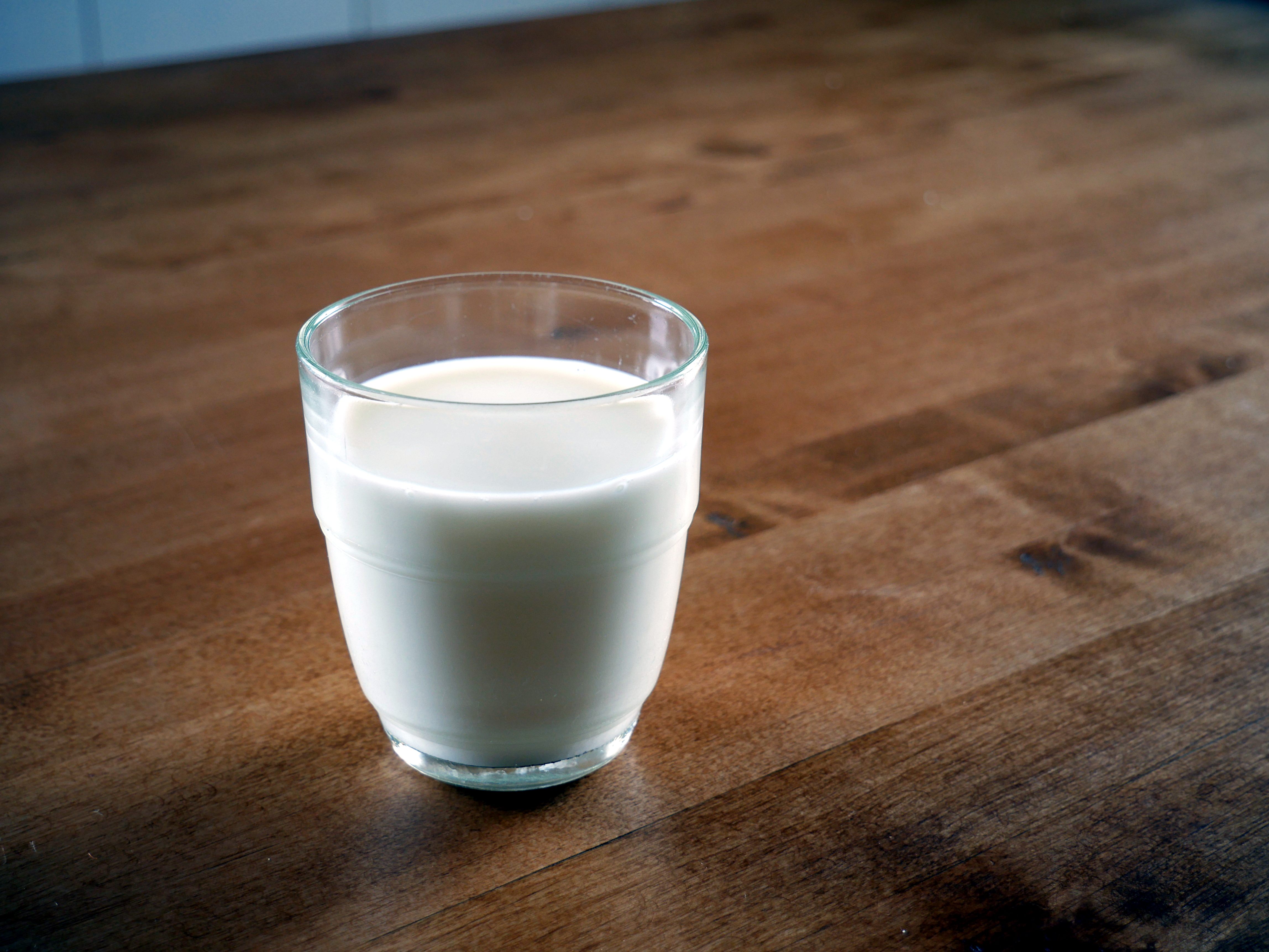 Glass of milk on table.